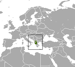 Balkan Mole (Talpa stankovici) range